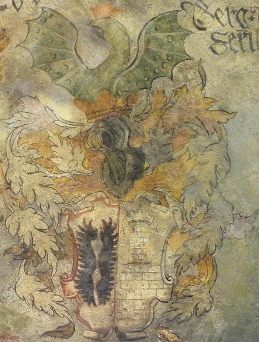 Coat of arms of Juraj V Zrinski /György Zrínyi/ (1549 - 1603), Ban (Viceroy) of Croatia. – Window in the Barbara's Palace, Castle of Trenčín, Slovakia. Detail of this